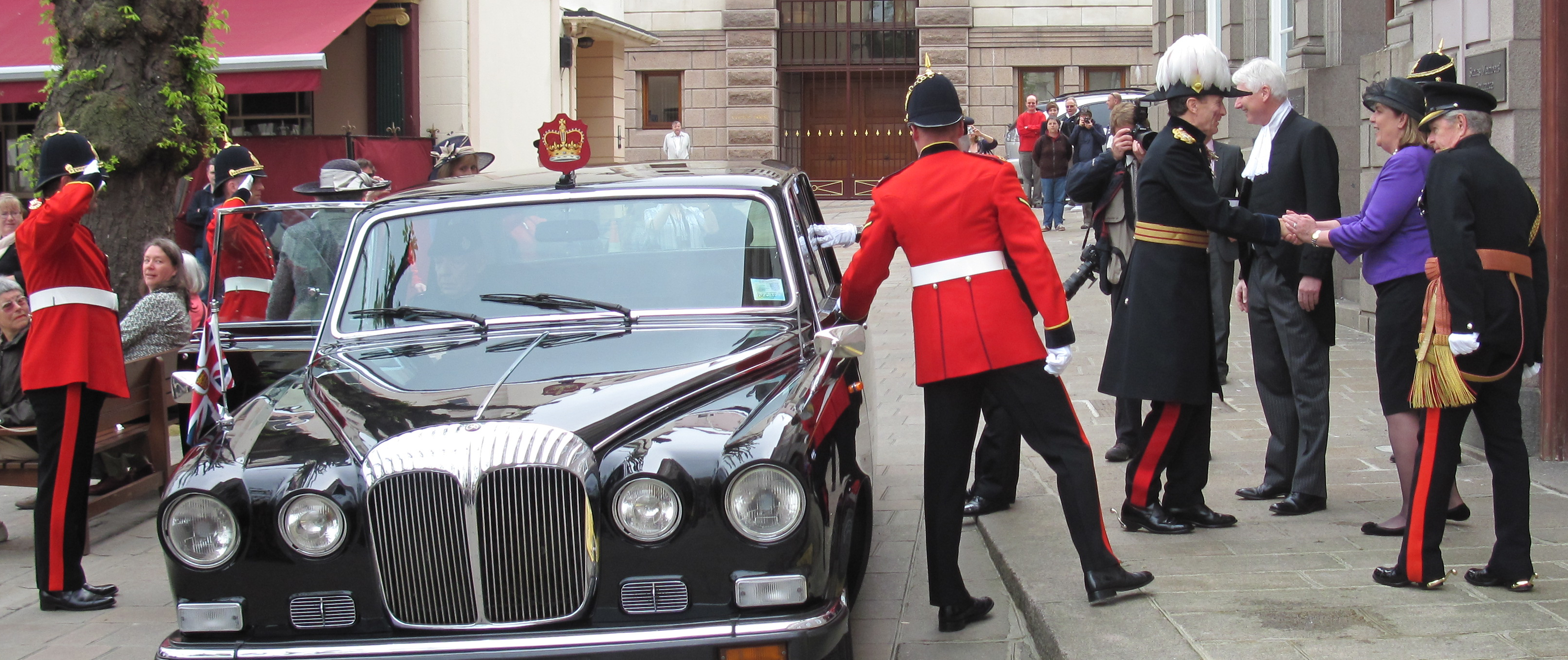 Liberation Day celebrations in Jersey 2012